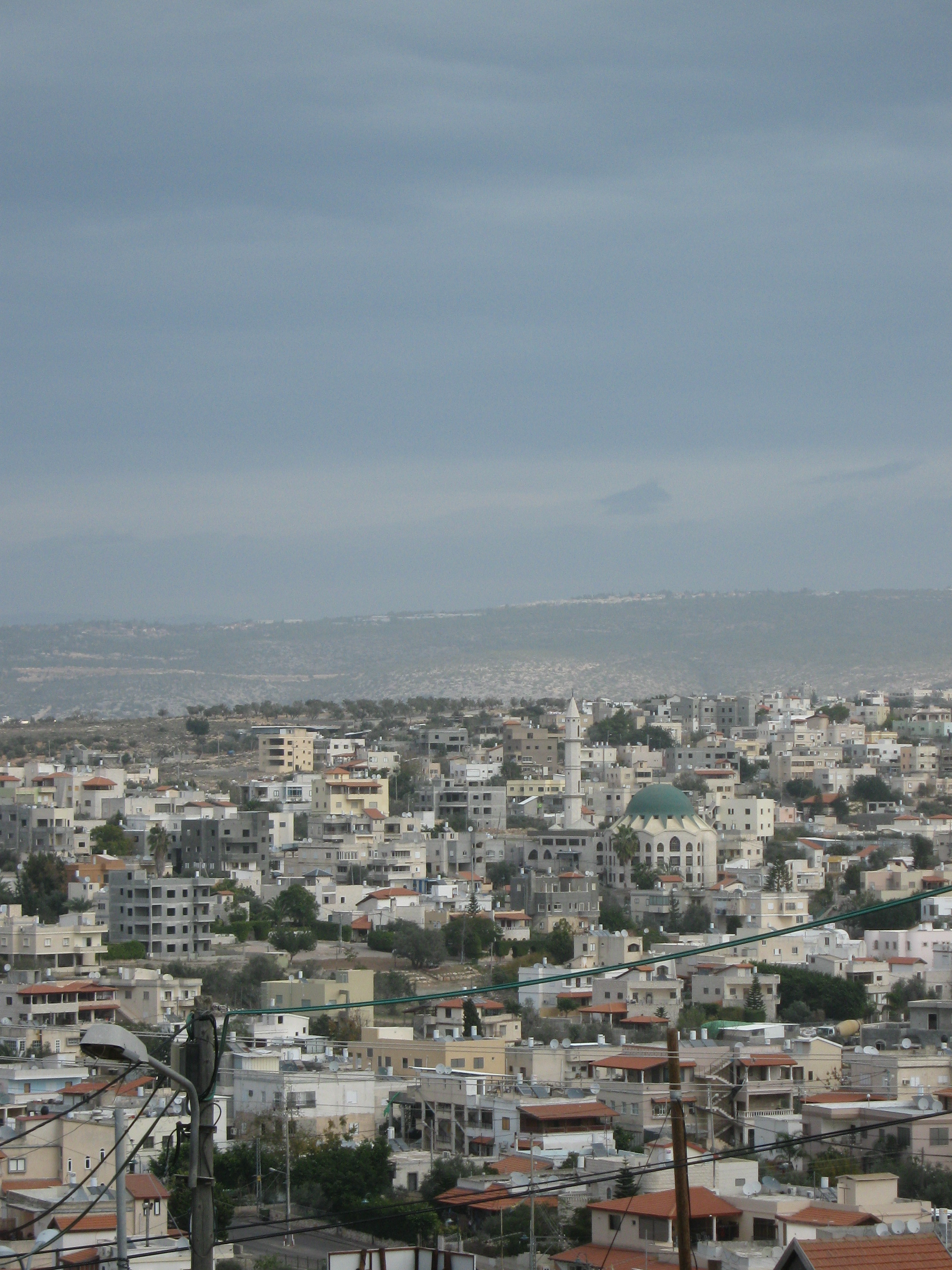 North East town, Cities in Israel